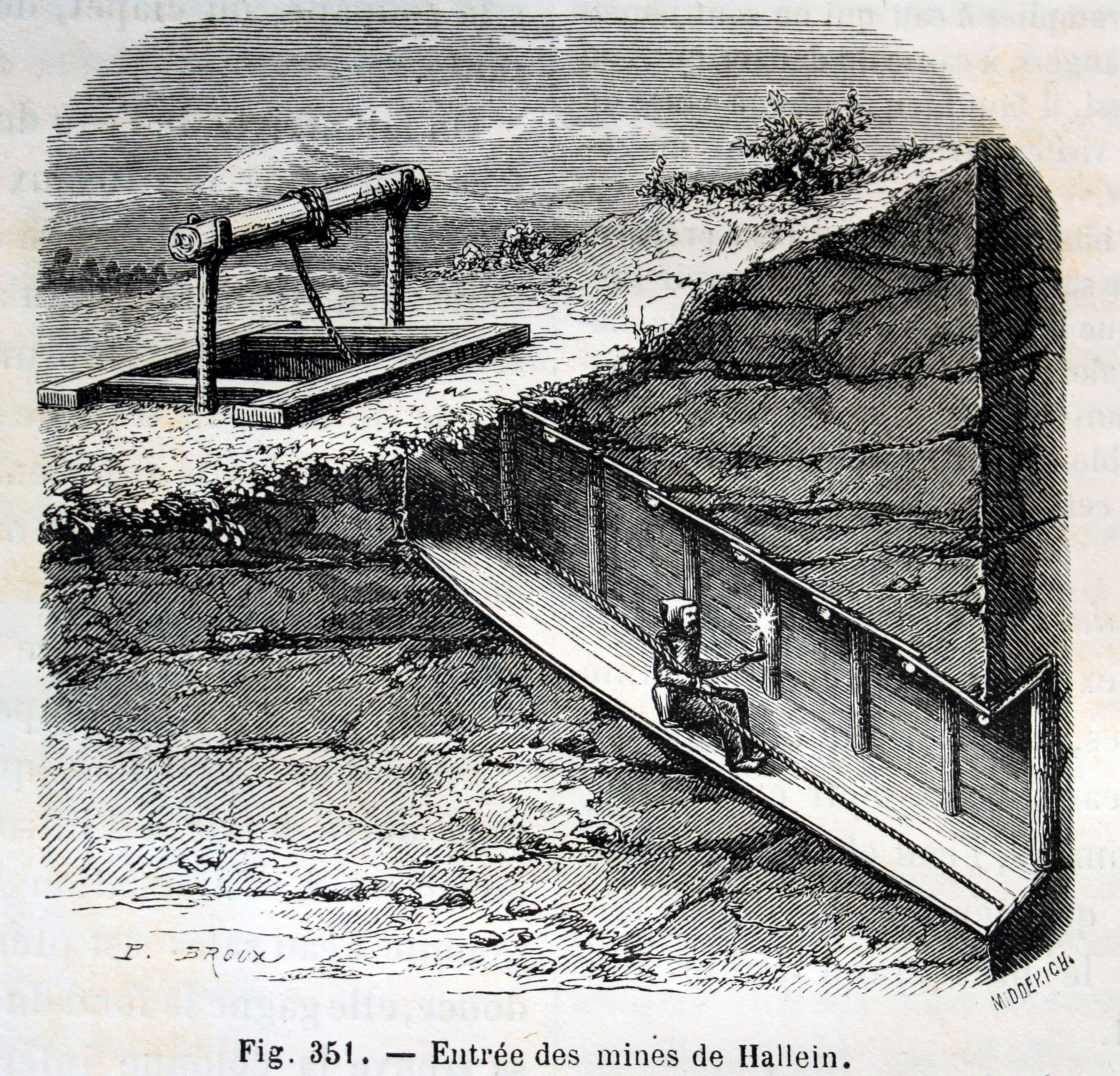 "The entrance to the mines of Hallein"